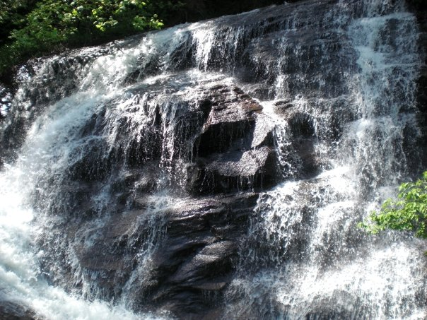 Batson Creek Falls, near Cedar Mountain, North Carolina